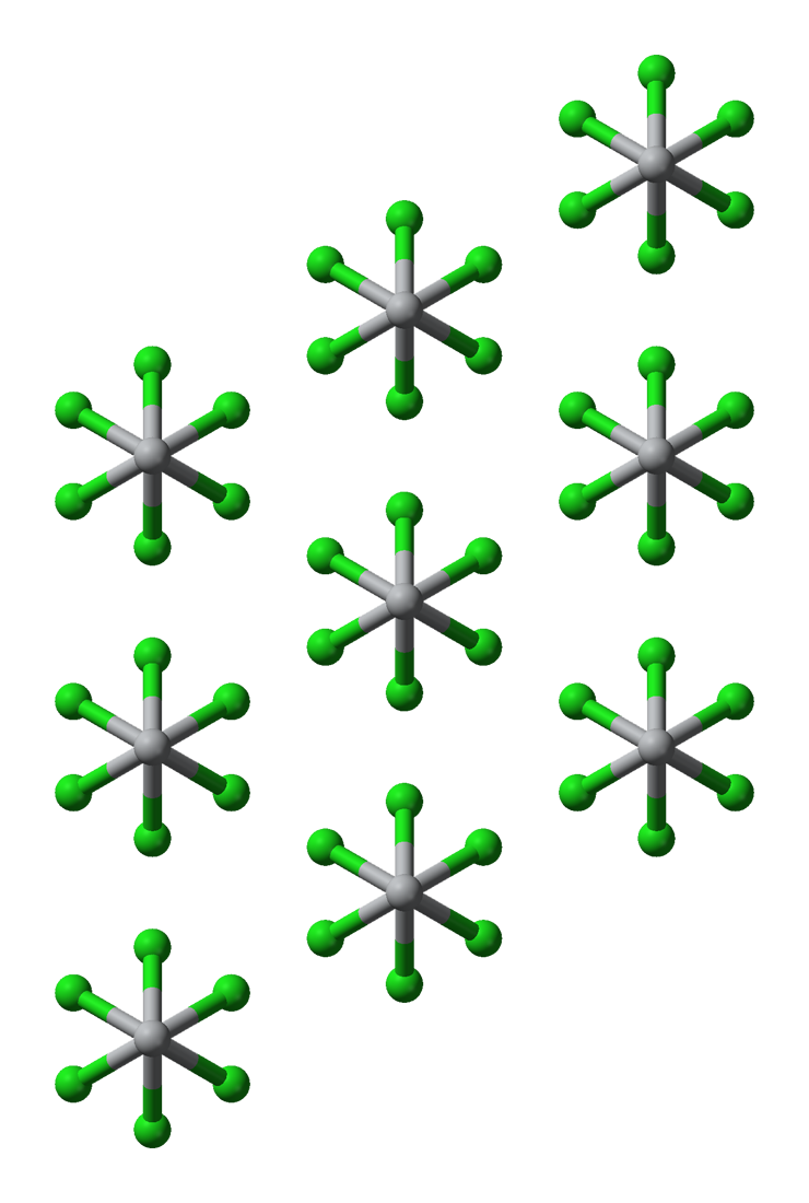 Ball-and-stick model of the packing of (TiCl3)n chains in β-TiCl3. Top-down view of nine chains. X-ray crystallographic data from F. Auriemma. V. Busico, P. Corradini, M Trifuoggi (1992). "A Reinvestigation of β-TiCl3 — I. Preparation and Structural Characterization". Eur. Polym. J. 28 (5): 513-518. Model constructed in CrystalMaker 8.1. Image generated in Accelrys DS Visualizer.